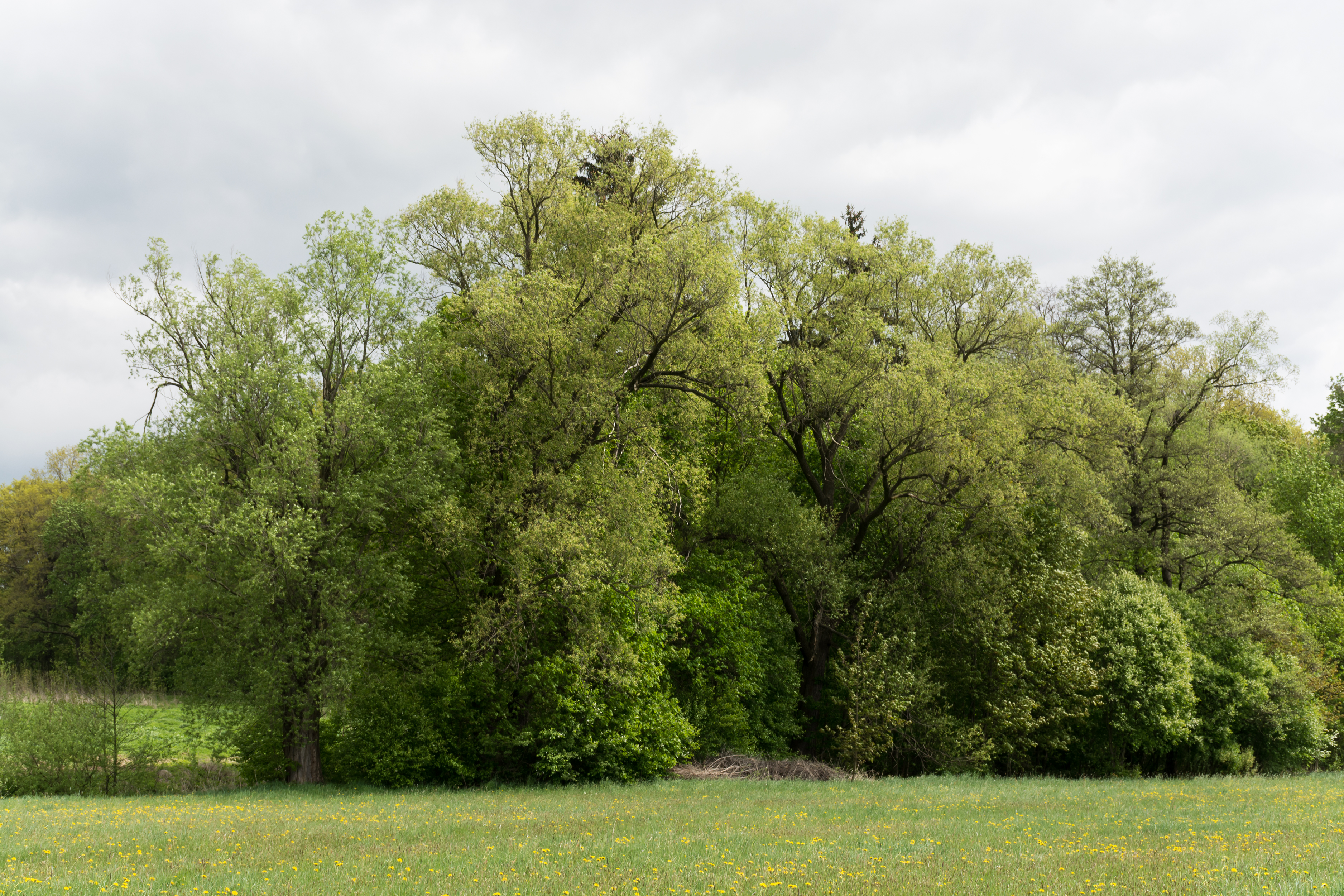 Park in Wolany